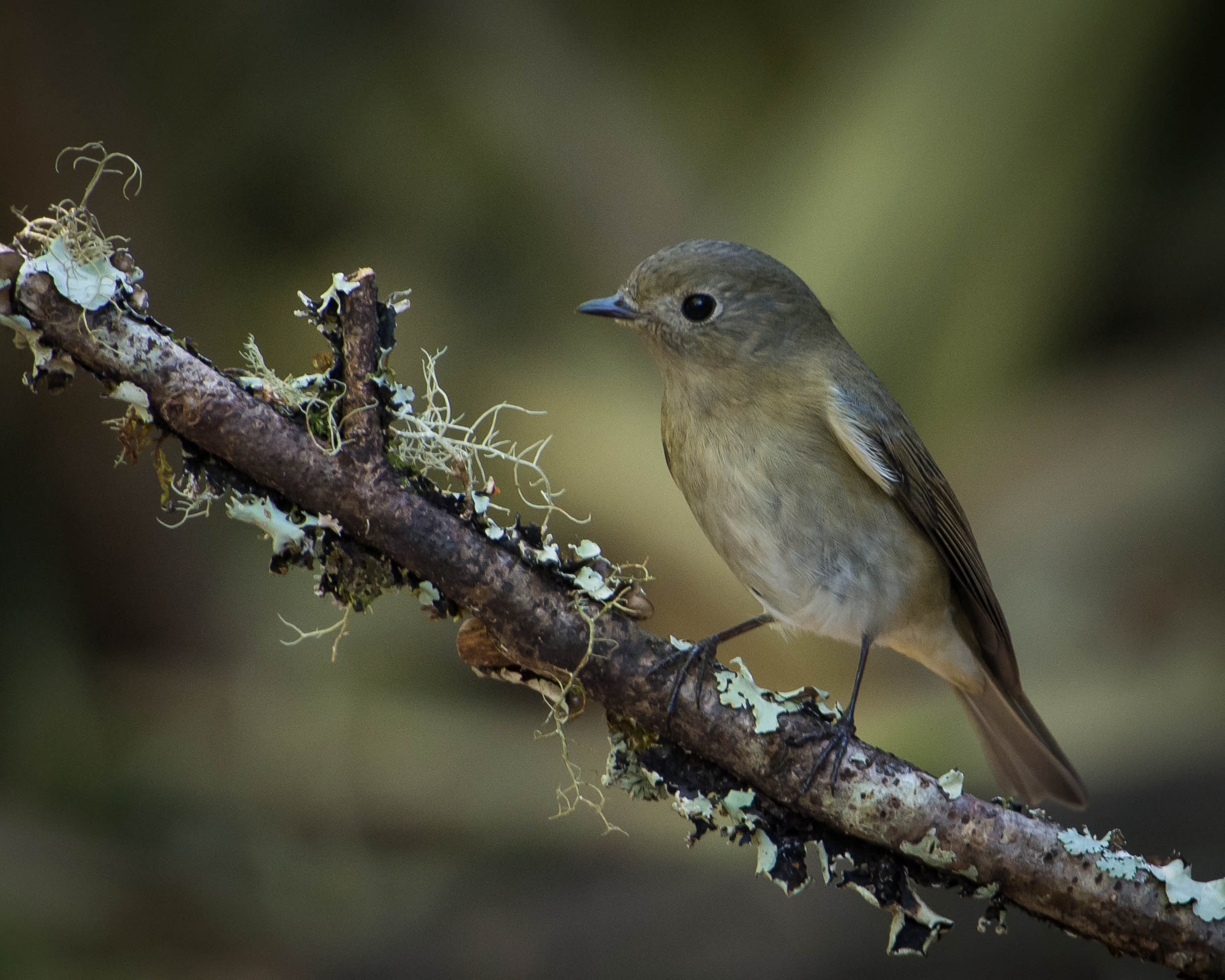 Female of Slaty-blue Flycatcher (Ficedula tricolor) at Mai Fang, Doi Lang, Chiang Mai Thailand